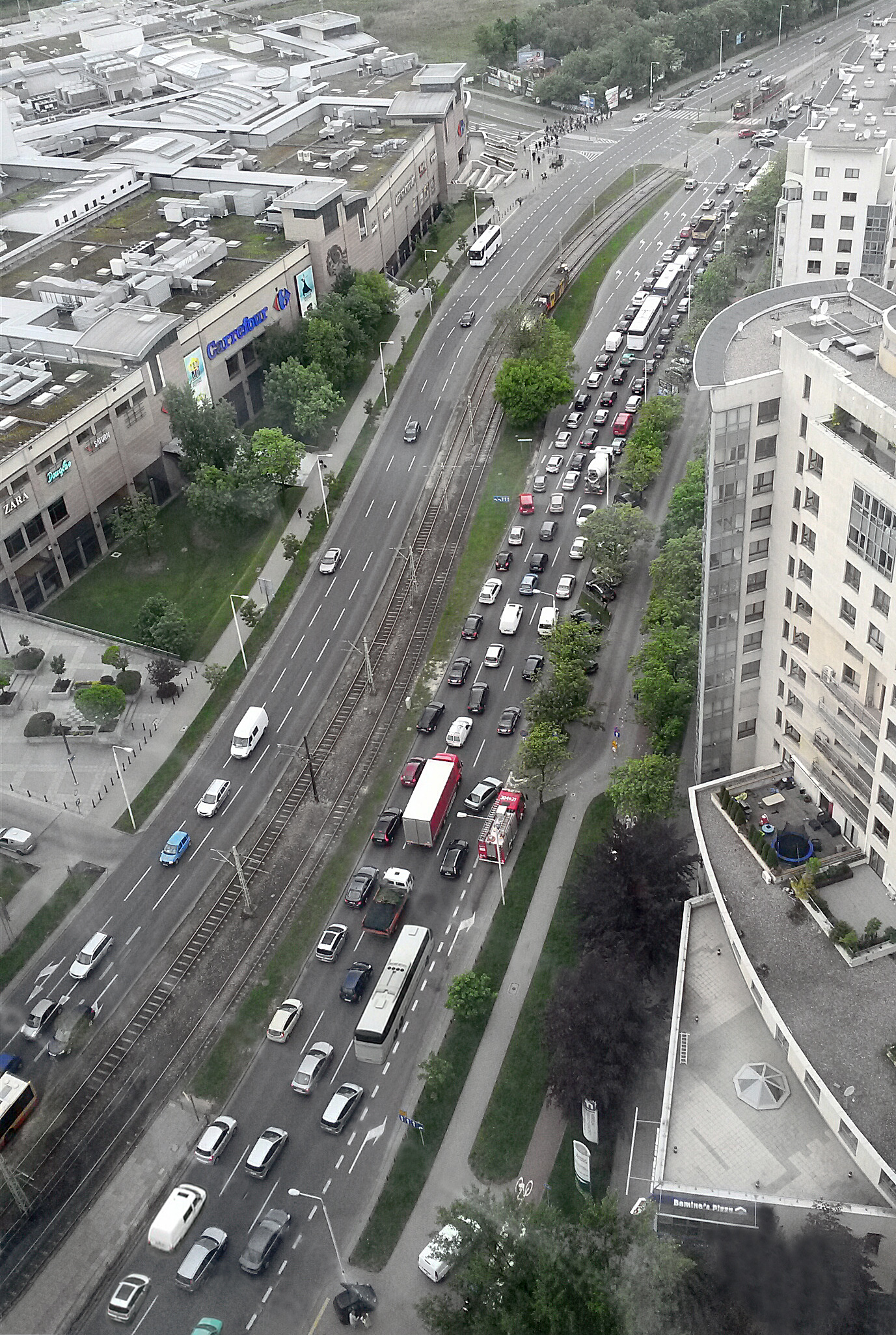 Traffic jam on Zygmunta Słomińskiego street, Warsaw